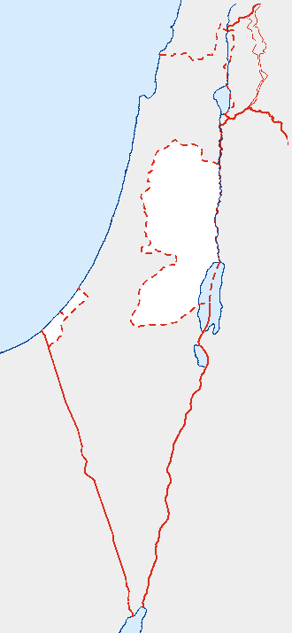 For use for locations within the West Bank and the Gaza Strip. own work on the base of Image:Israel-locator.PNG